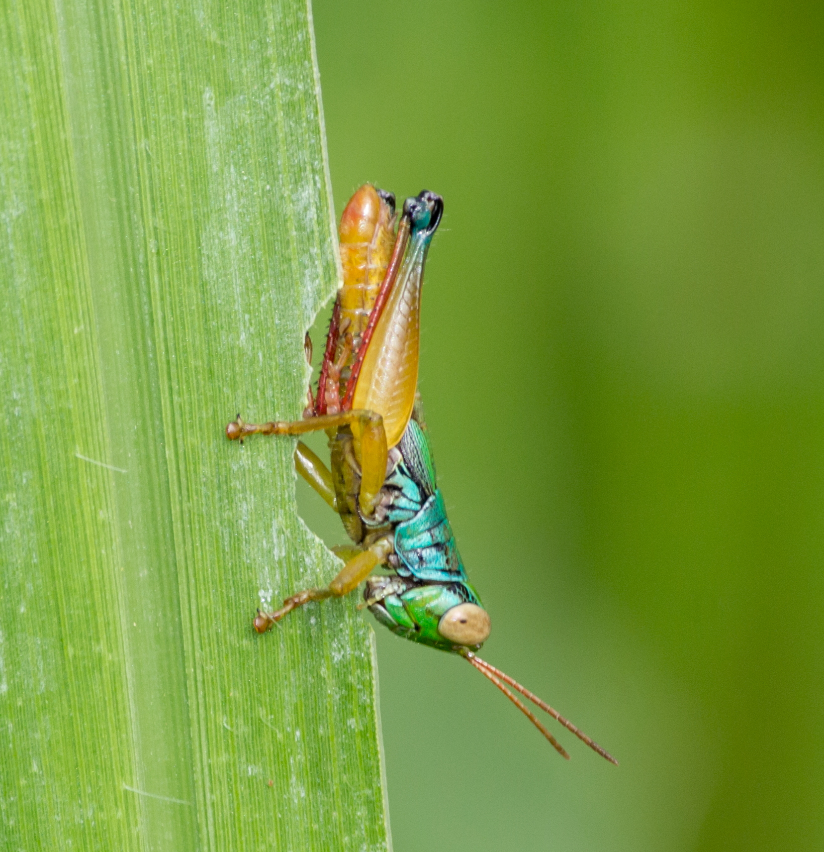 Caryanda spuria, Umbulharjo (south of Mount Merapi), 2014-04-16